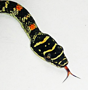 Chionactis occipitalis Nouvelle version de AB128 - Chrysopelea ornata head.JPG : recadrage.